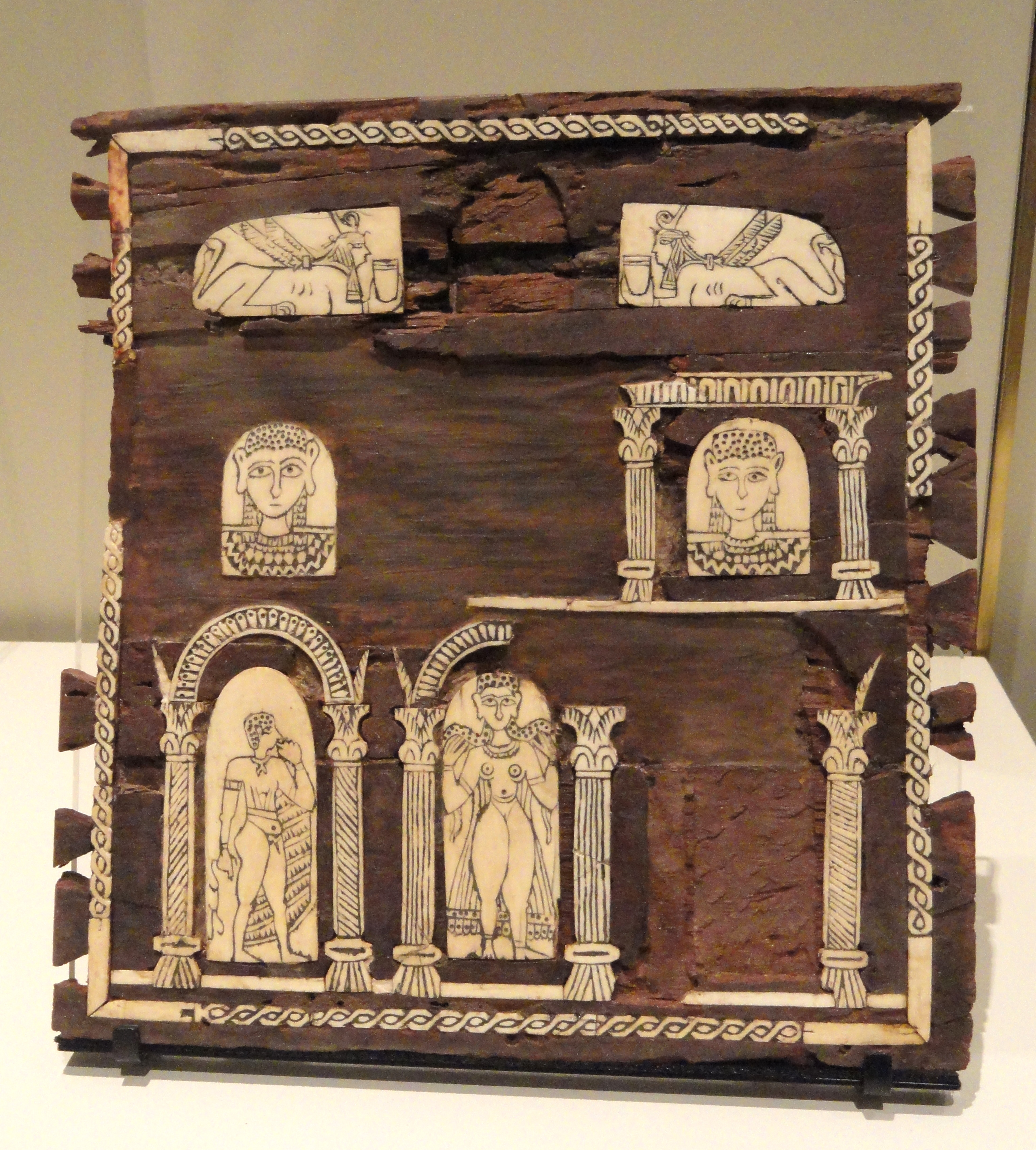 Front panel of decorated wooden box, wood with ivory inlay, Gebel Adda, 300-400 AD Exhibit in the Royal Ontario Museum, Toronto, Ontario, Canada. This exhibit is old enough so that it is in the public domain, and photography was permitted in the museum. I took this photograph and release it into the public domain.